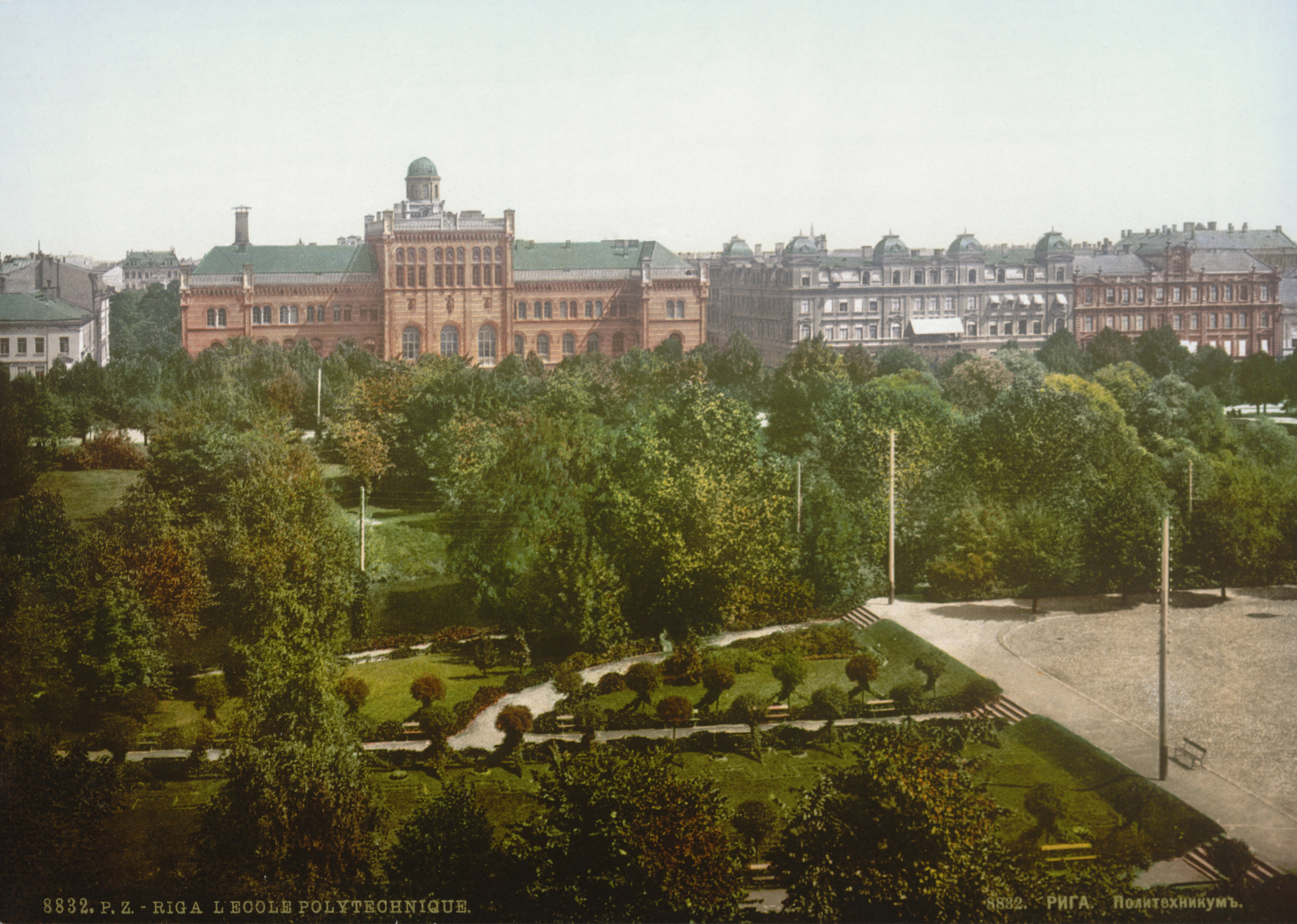 The Polytechnikum, Riga, Russia, (i.e., Latvia)